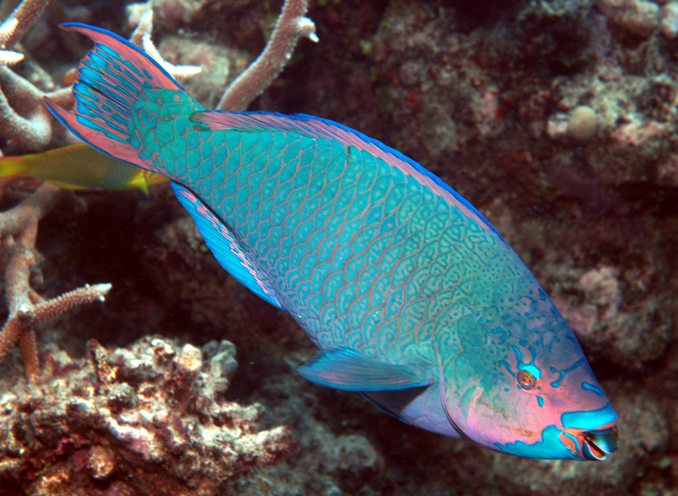 Scarus altipinnisGreat Barrier Reef, Cairns, Australia